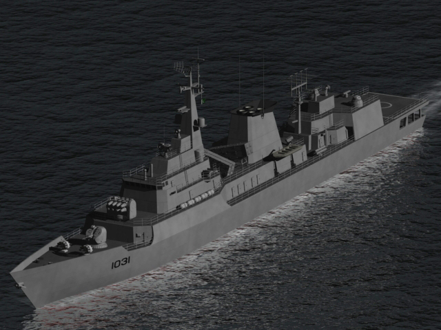 Image created by me. It is a rendering of a 3D model created using Lightwave 3D v5.5 software.